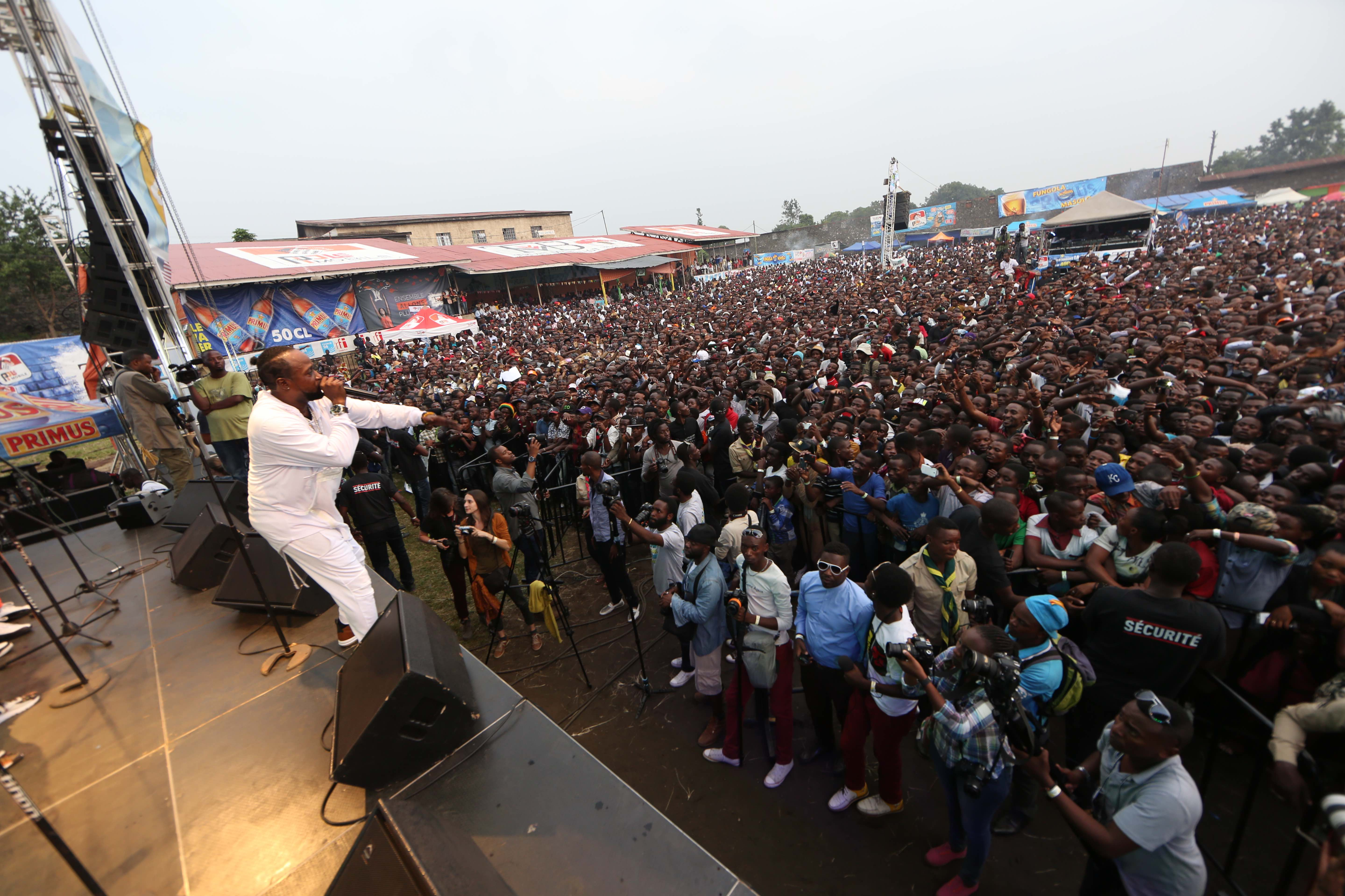 Goma, Nord Kivu, RD Congo. L'artiste Werrason chante pour la paix lors de la troisième édition du festival Amani. Photo MONUSCO / Abel Kavanagh == Goma, North Kivu, DR Congo. Artist musician Werrason sings for peace at the third edition of Amani Festival. Photo MONUSCO / Abel Kavanagh